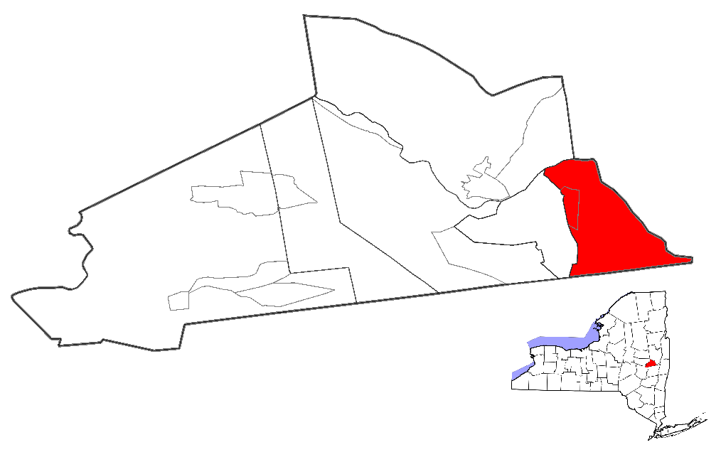 Map of Schenectady County highlighting Niskayuna